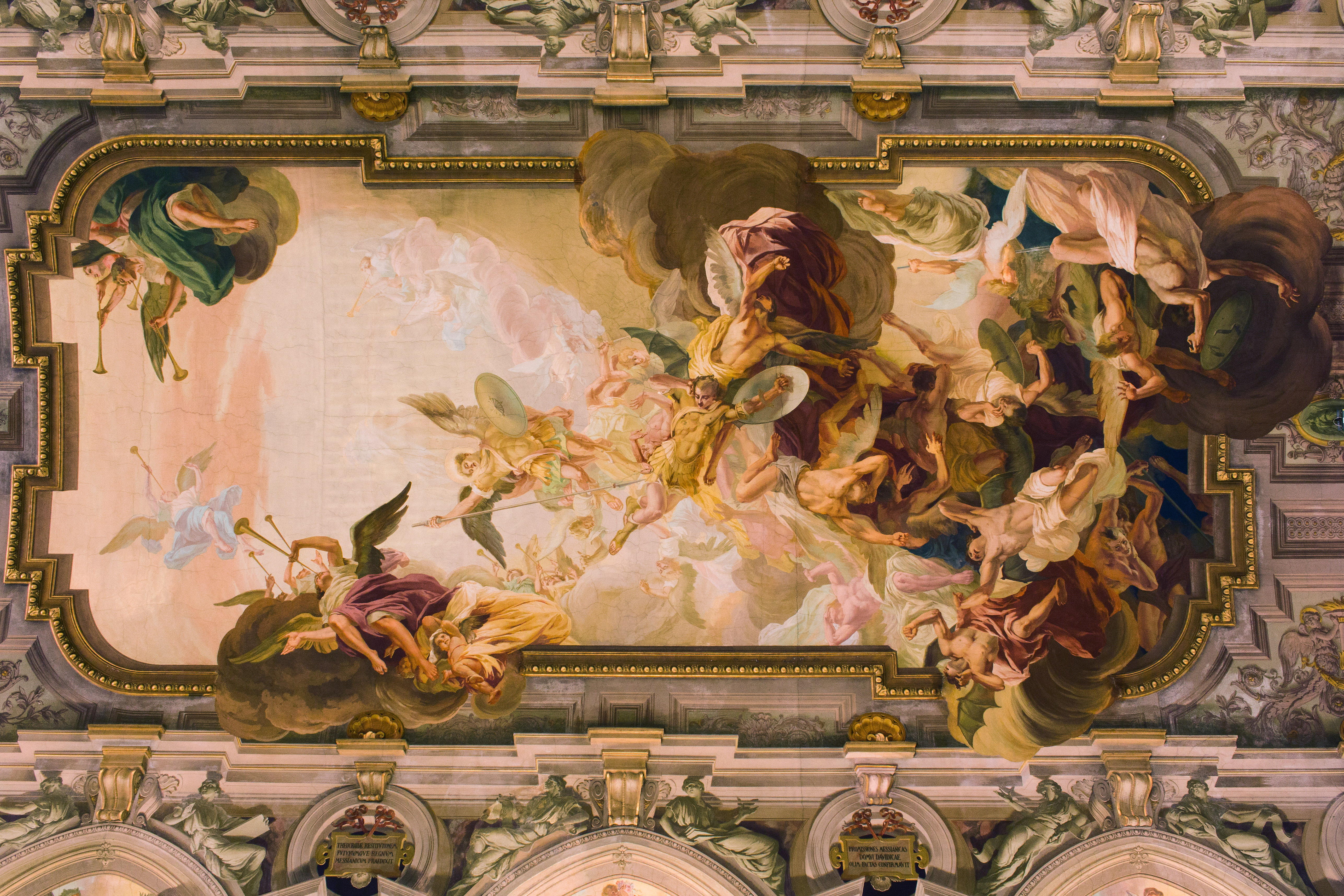 This is a photo of a monument which is part of cultural heritage of Italy.